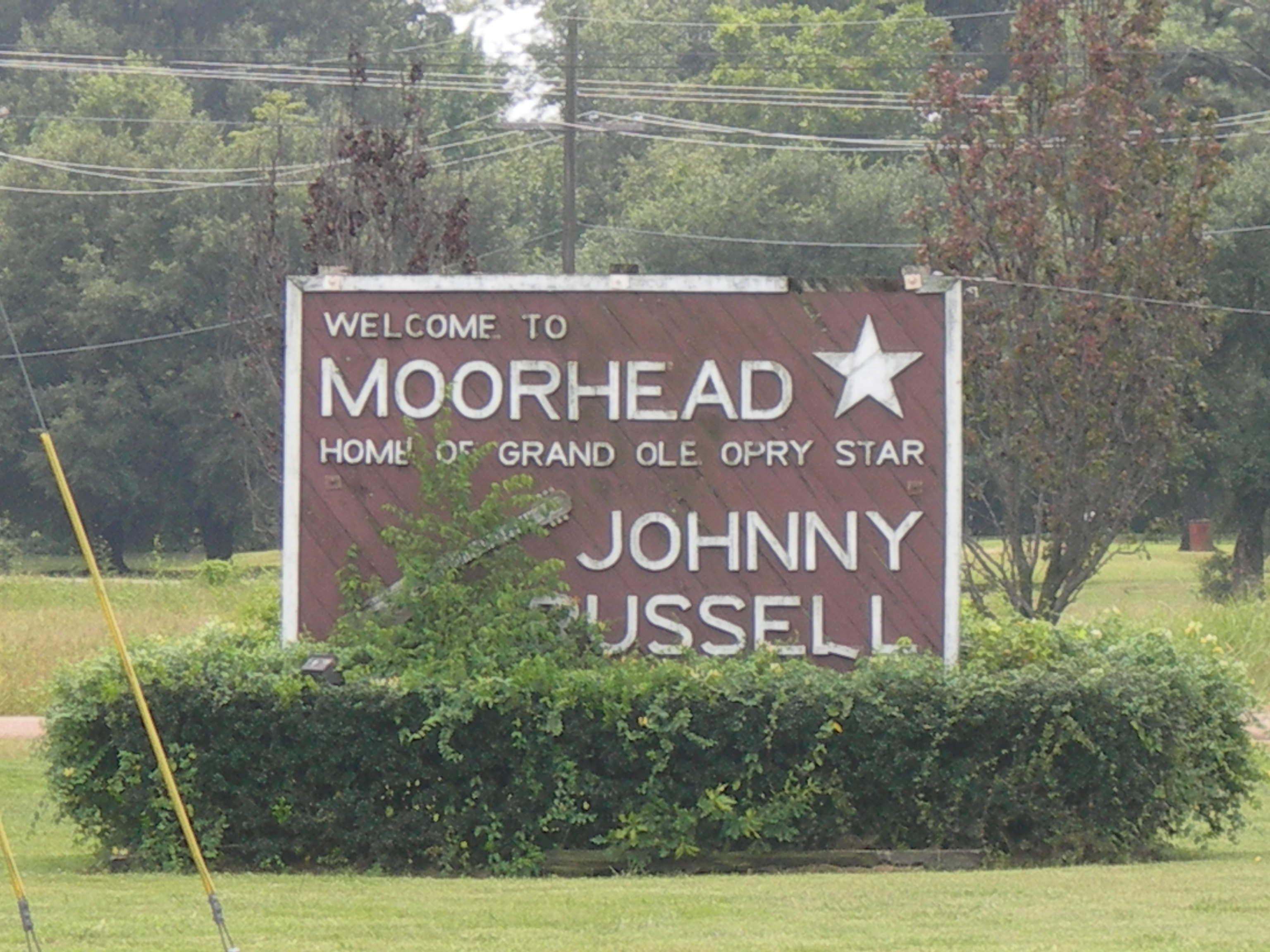 Entrance sign to Moorhead, Mississippi